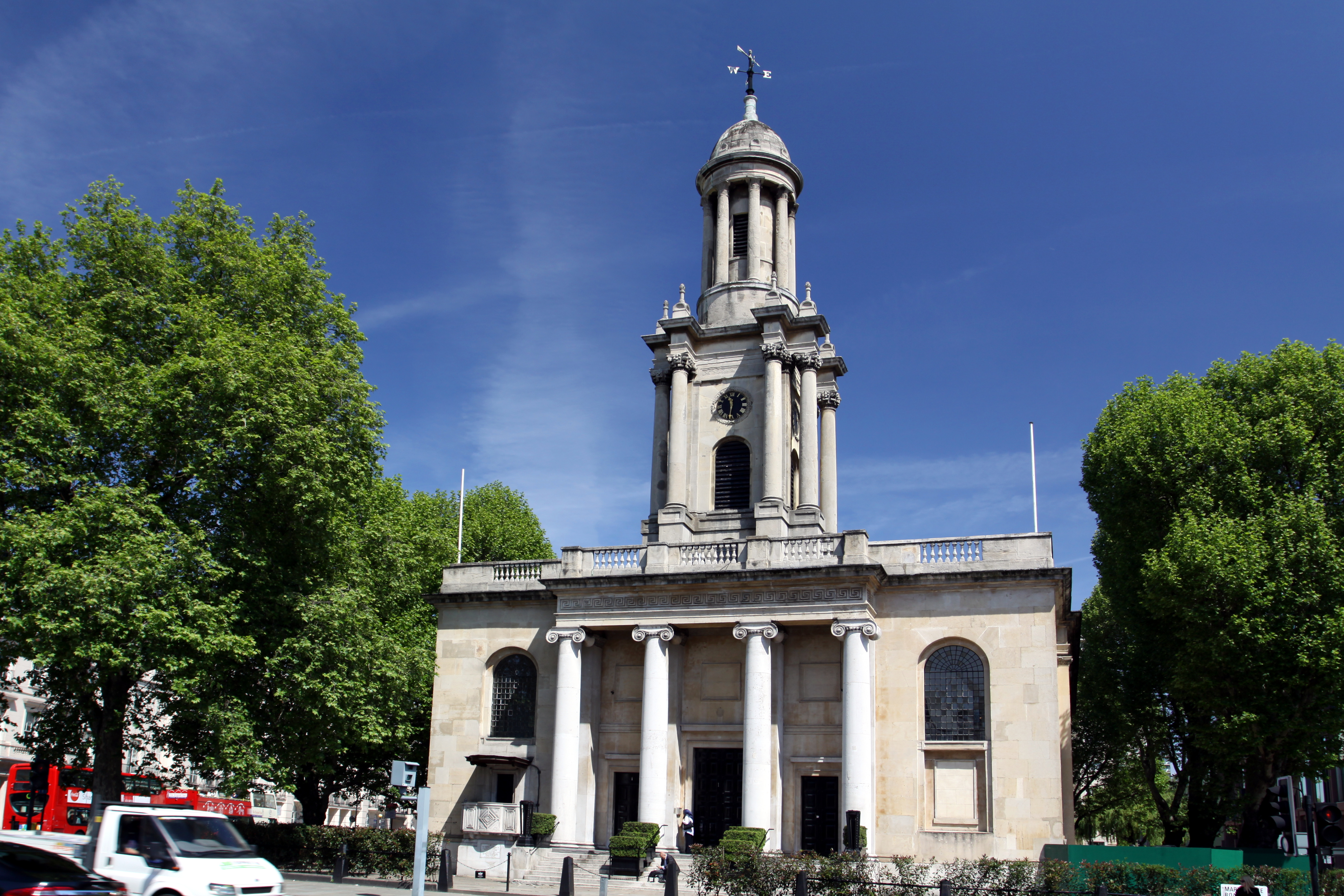 Holy Trinity Church, Marylebone, the City of Westminster in London, England, Great Britain The making of this file was supported by Wikimedia UK.